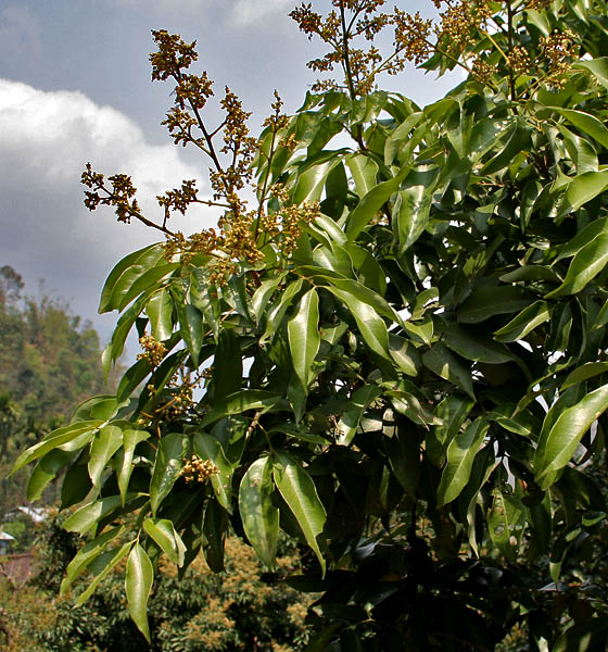 Lychee Litchi chinensis at Samsing in Darjeeling district of West Bengal, India.